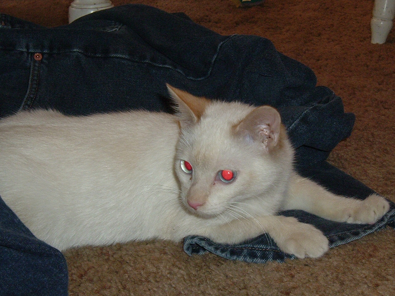 My cat, snowball, with a very bad case of red-eye.